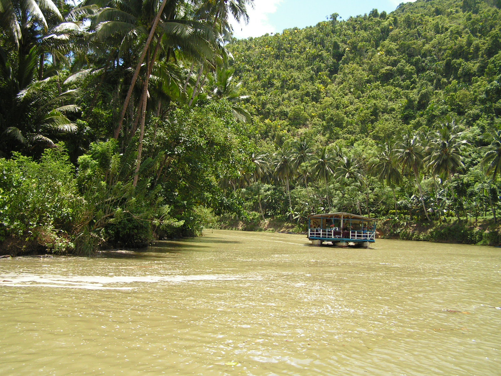 = plants along the Loboc, Bohol river bank taken while on a river cruise upstream